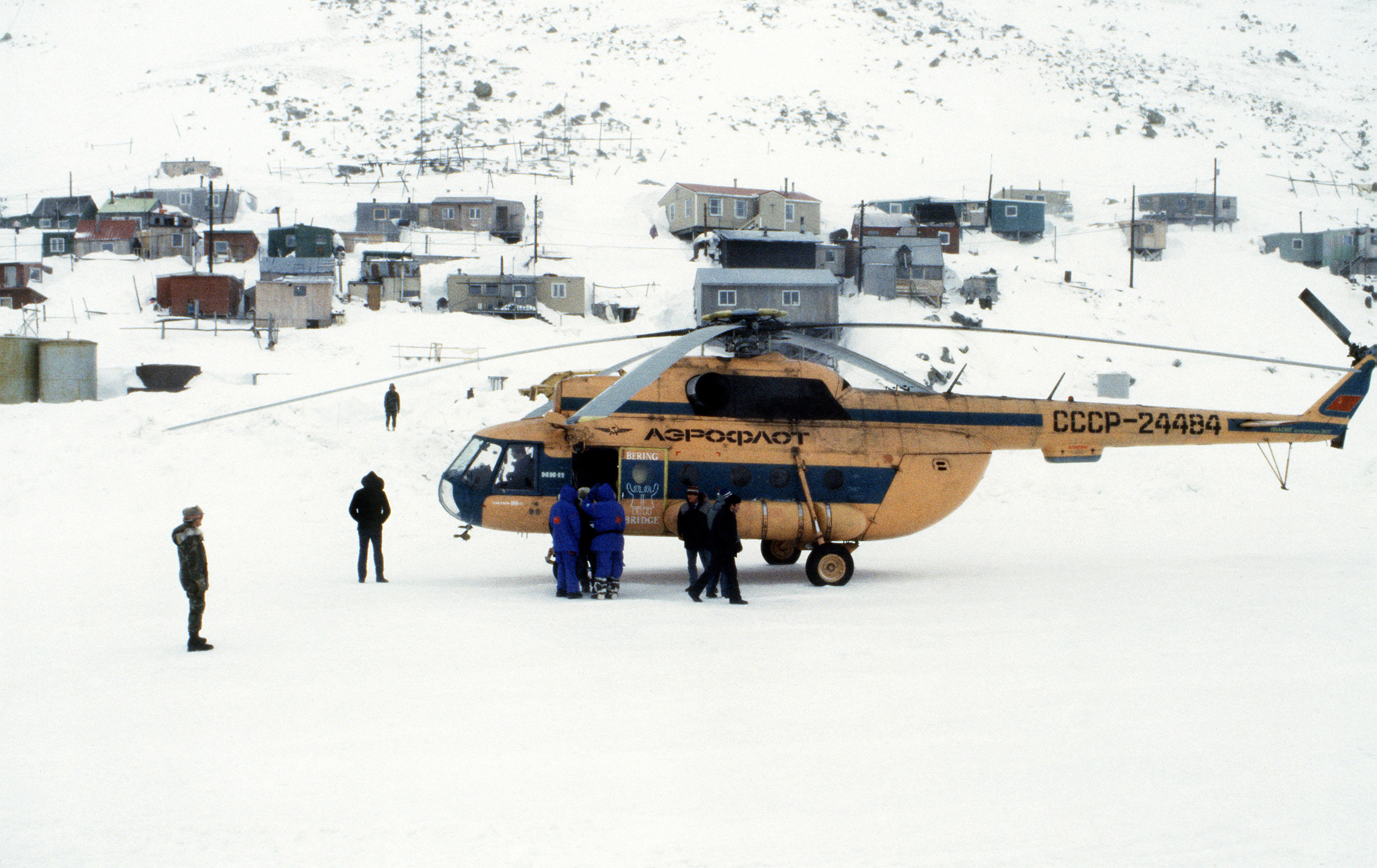 Soviet dignitaries and members of the Soviet press prepare to depart the area aboard an Mil Mi-8 Hip helicopter following a ceremony celebrating the arrival of the joint Soviet-American Bering Bridge Expedition. Organized to promote better relations between the United States and the USSR, the expedition encouraged natives of Alaska to visit relatives in the Soviet Union. Team members trekked 800 miles through the Soviet Union to the International Date Line and then continued on to Little Diomede.